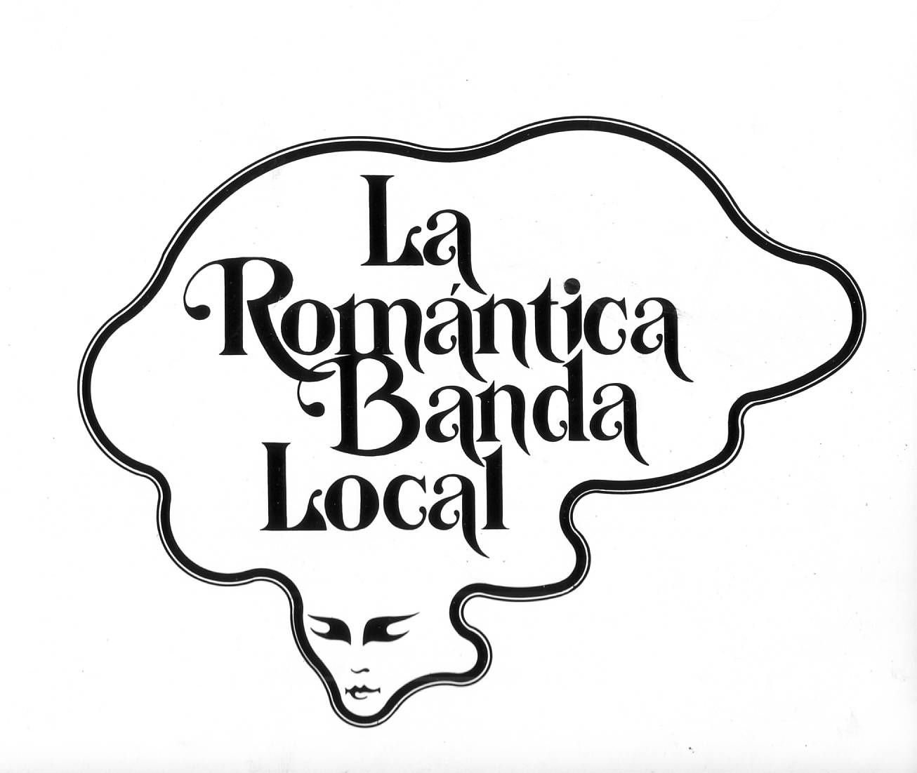 Logo of the Local band romantic loaned by an anonymous fan.